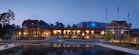 Panoramic shot of the North Carolina Aquarium at Pine Knoll Shores.